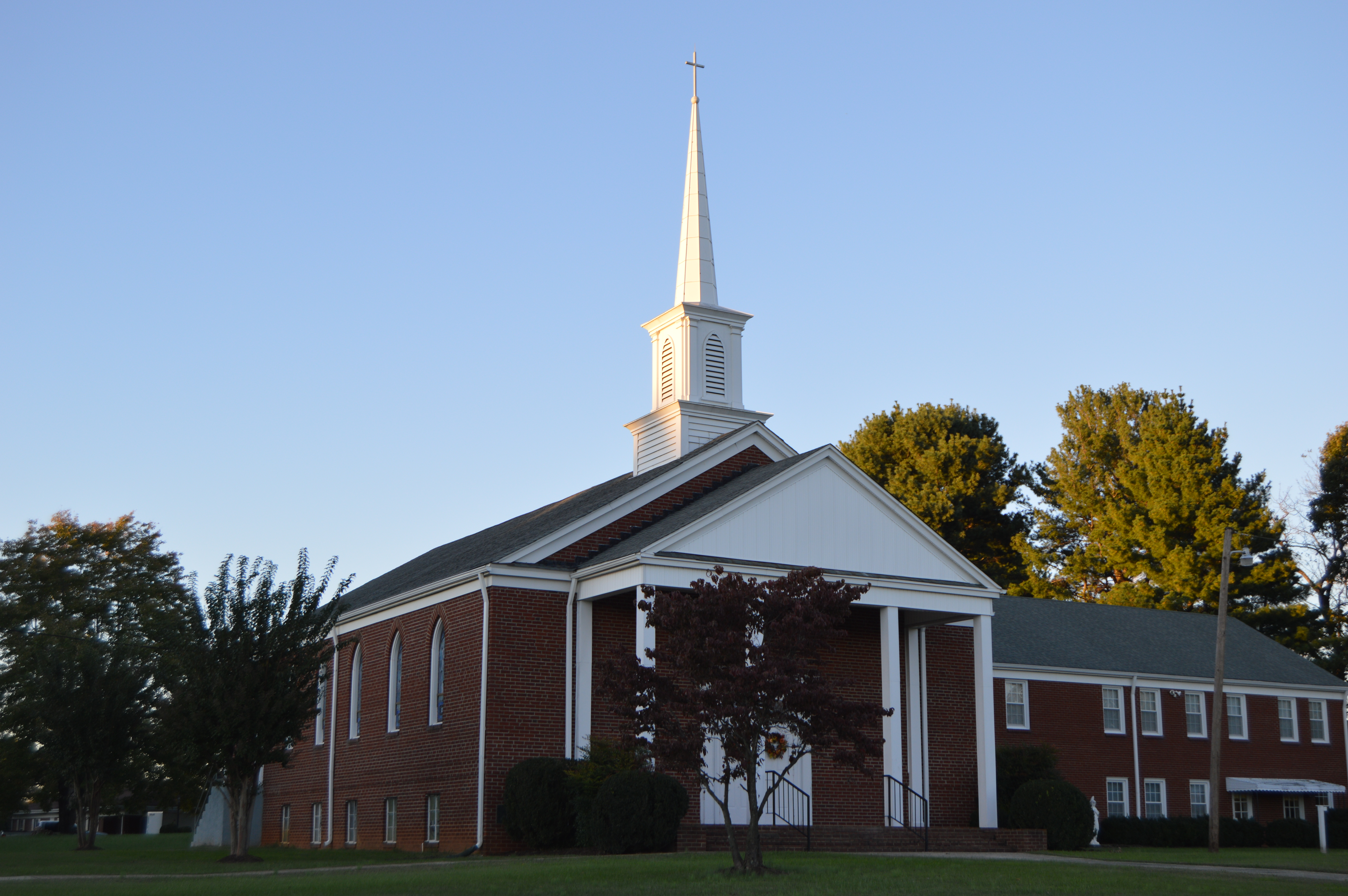 Front and western side of Bethlehem United Methodist Church, located at 42 Phoebe Pond Road at Concord in Campbell County, Virginia, United States.